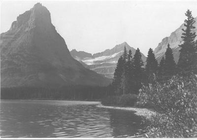 Title: Black and white photo of Glenn Lake and Pyramid Peak in Glacier National Park Creator: Hileman, T. J. Date: Unknown Description: Photo of a lake surrounded by a pine forest with a tall rocky peak and other mountains in the background. Written on verso: Glenn Lake and Pyramid Peak • I represent Montana State University Library and we are releasing this image into the Creative Commons. Keywords: glacier national park, mountains, lakes, forests, scenic views, montana Object ID: 230